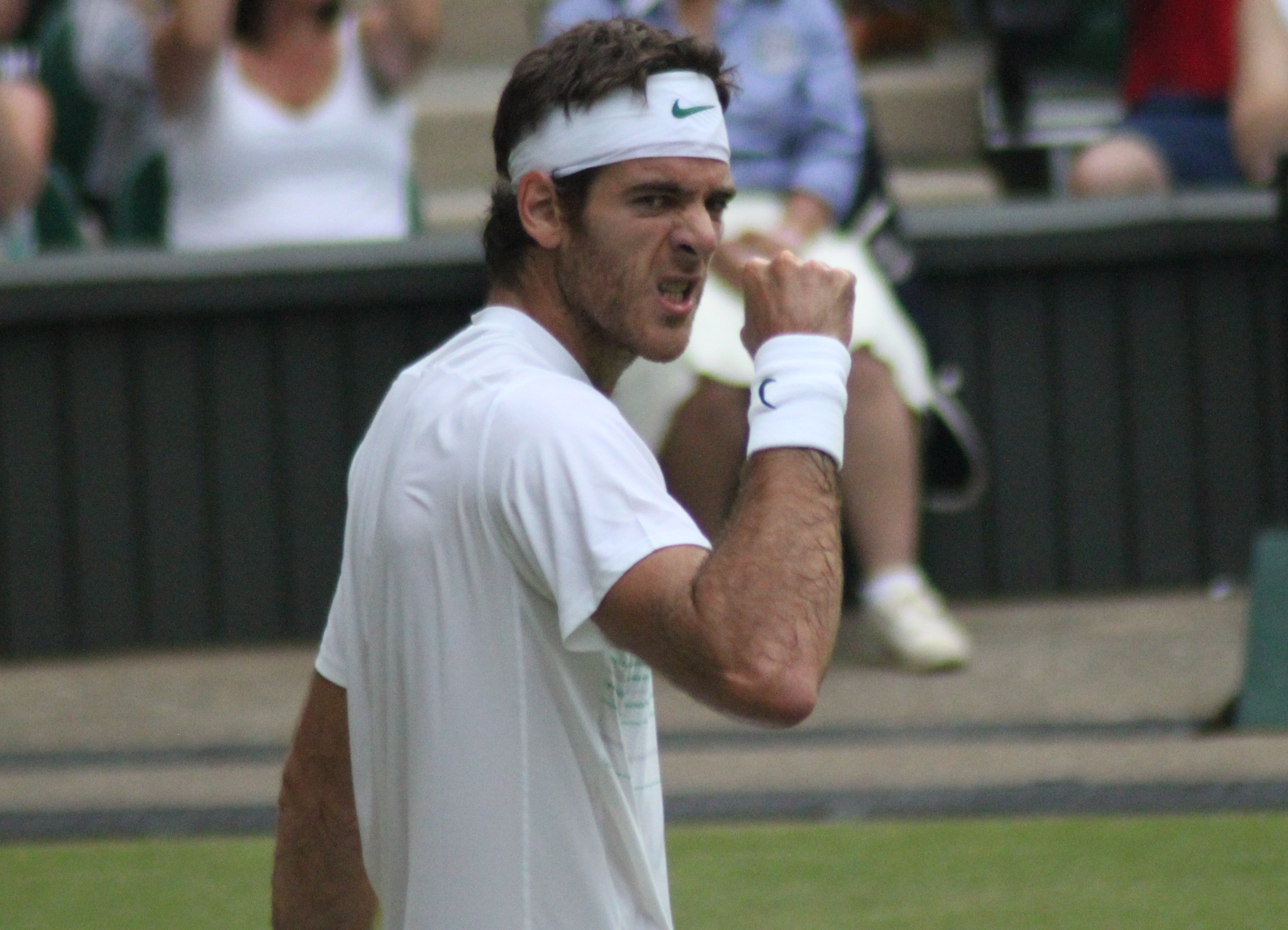 Del Potro celebrates at Wimbledon 2011 This is a retouched picture, which means that it has been digitally altered from its original version.